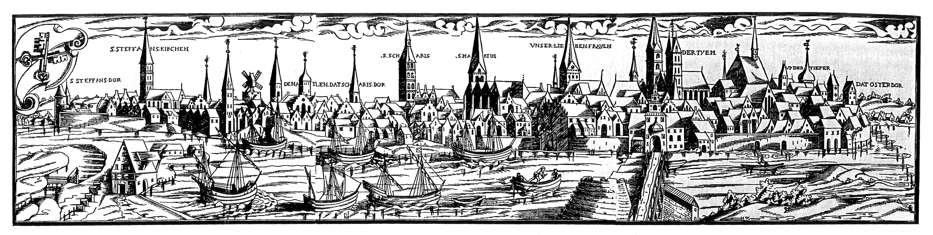 Bremen in the 16th century. Oldest preserved view of the city of Bremen. Woodcut by Hans Weigel (Nuremberg) from the year 1564, based on a drawing by Meister M. W. (master M. W.).